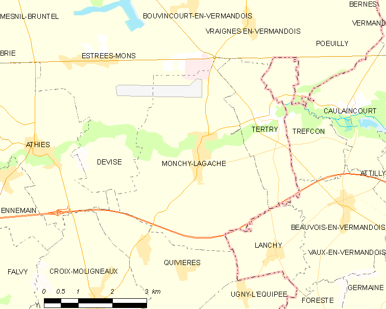 Map of French municipality Monchy-Lagache